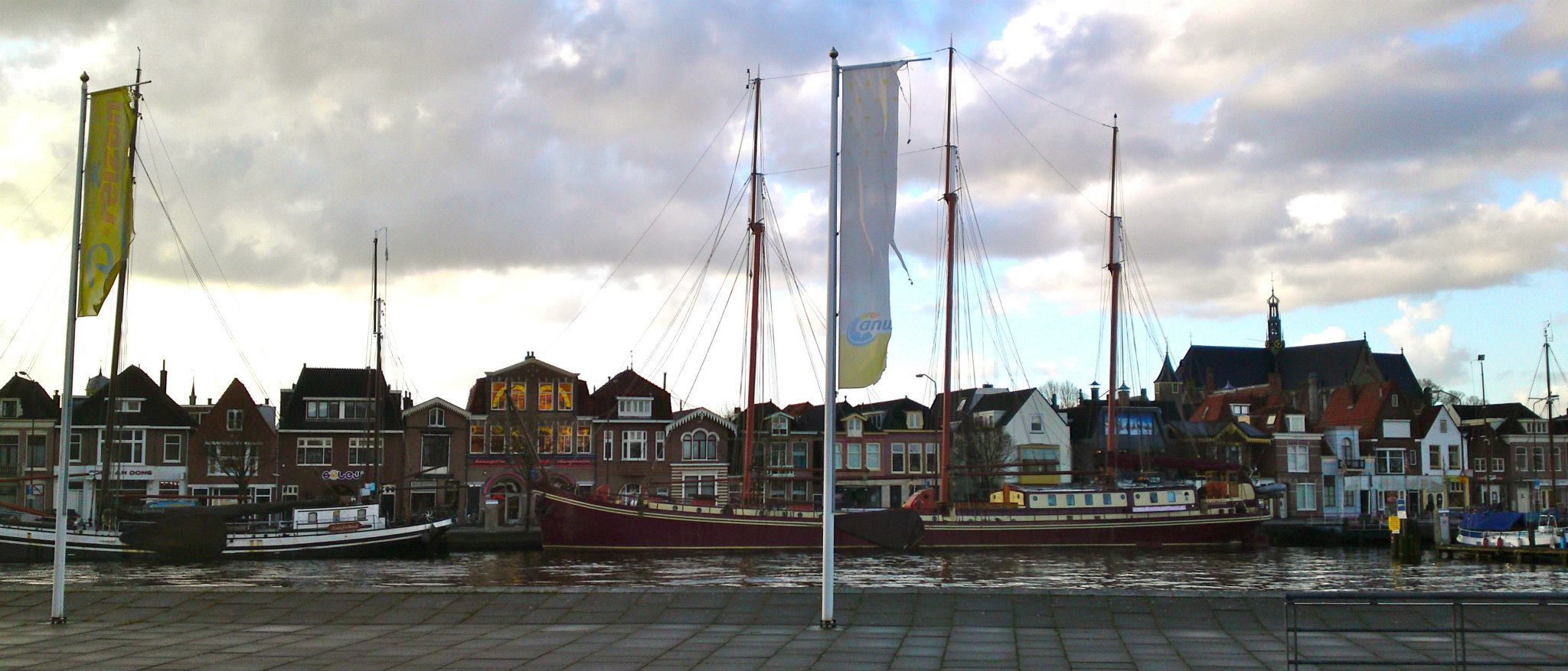 Alkmaar city-centre seen from Alkmaar-overstad